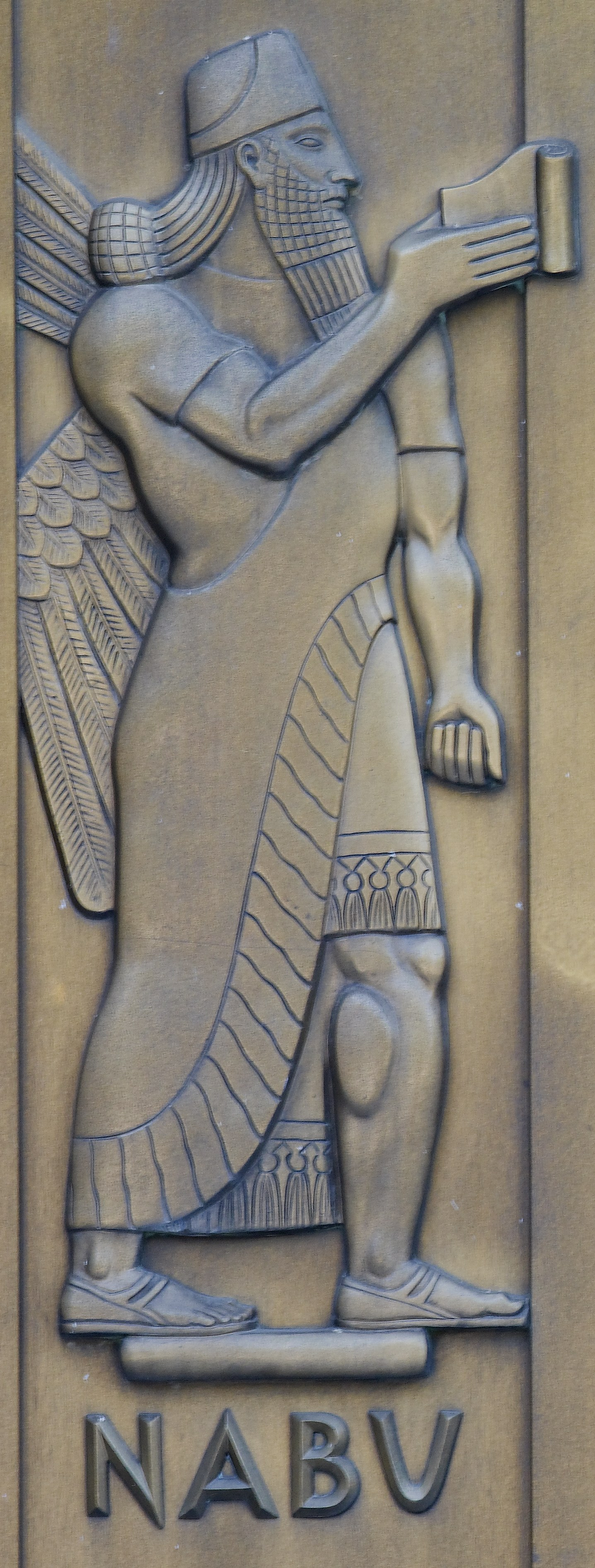 Nabu, sculpted bronze figure by Lee Lawrie. Door detail, east entrance, Library of Congress John Adams Building, Washington, D.C.